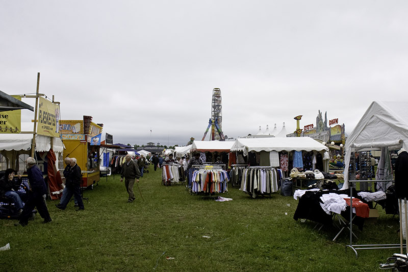 Hjallerup Marked, a danish market with horse trading, amusements and sales of different merchandise.